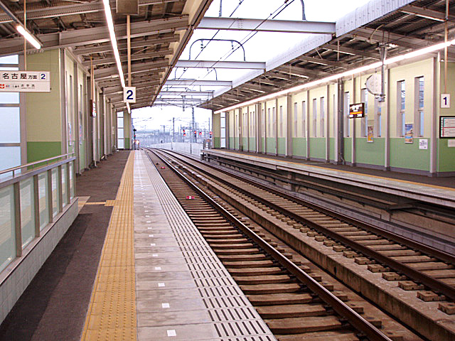 Kinki Nippon Railway Nagoya Line Kasumori Station Platform 近畿日本鉄道 名古屋線 烏森駅駅駅ホーム